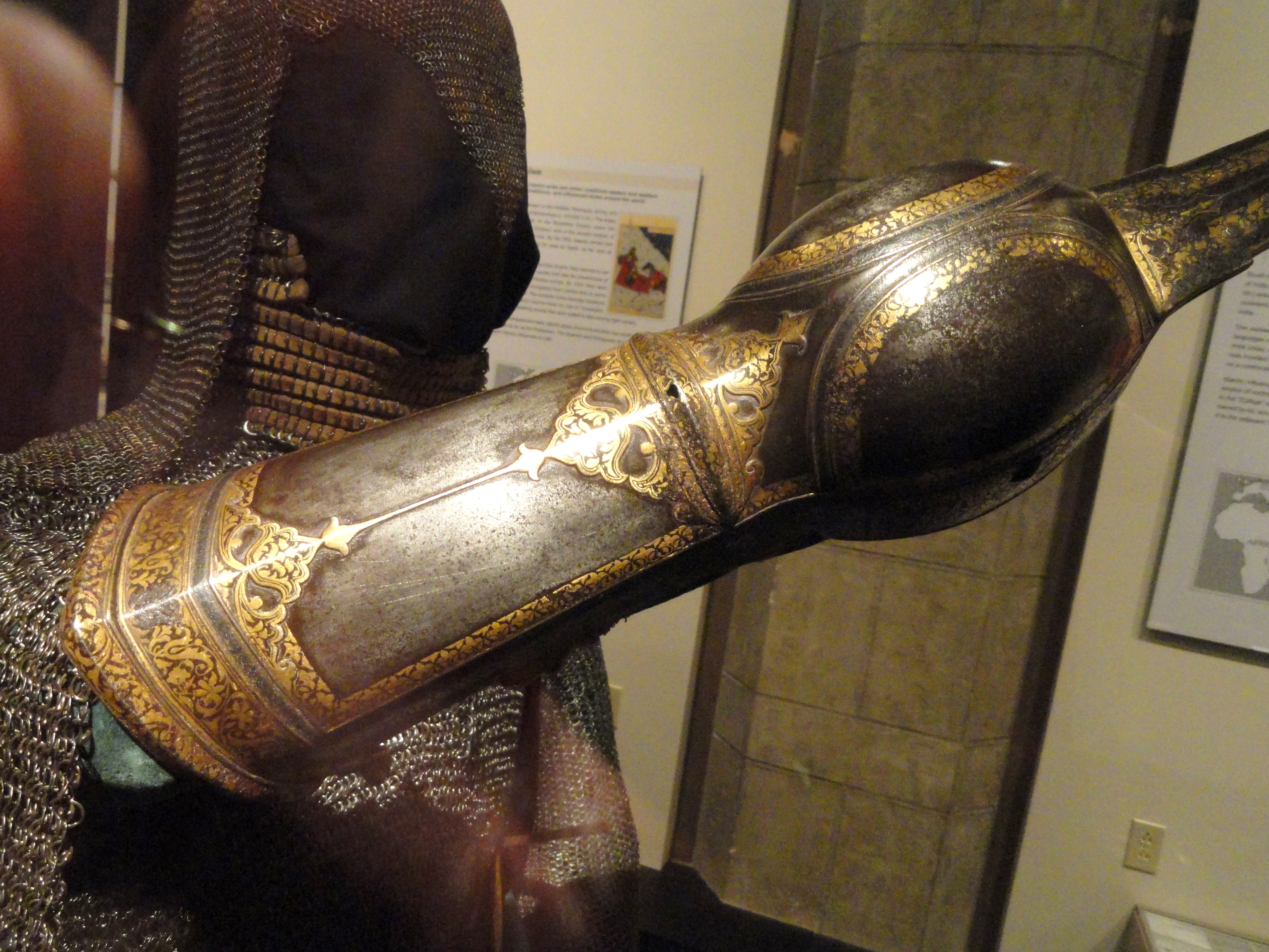 Exhibit in the Higgins Armory Museum, 100 Barber Avenue, Worcester, Massachusetts, USA. The museum permitted photography without any restriction, both in writing and when I asked verbally.